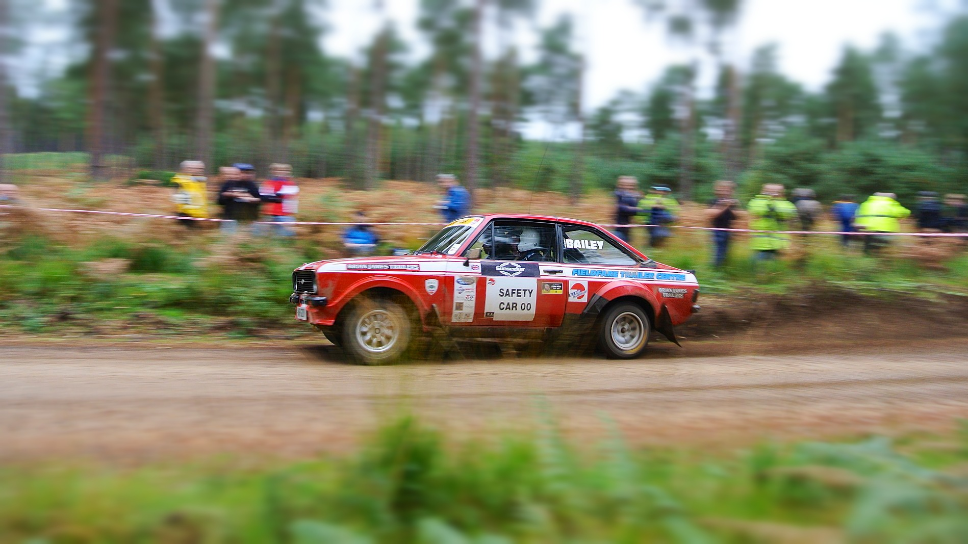 A super day out at the rally - and the rain held off too! Various classes of cars were racing from historic classics right up to current top spec factory cars. For sheer fun and exuberance nothing can beat the sight of a well driven rear wheel drive Escort and who does not enjoy the classic Mini, or a Saab? All photos taken with the Nikon V1 camera in S mode, a slowish shutter speed was used to enable panning with a blurred background.